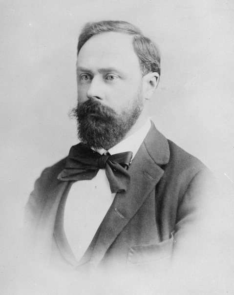 Richard Heuberger (1850–1914), Austrian composer of operas and operettas, a music critic, and teacher.